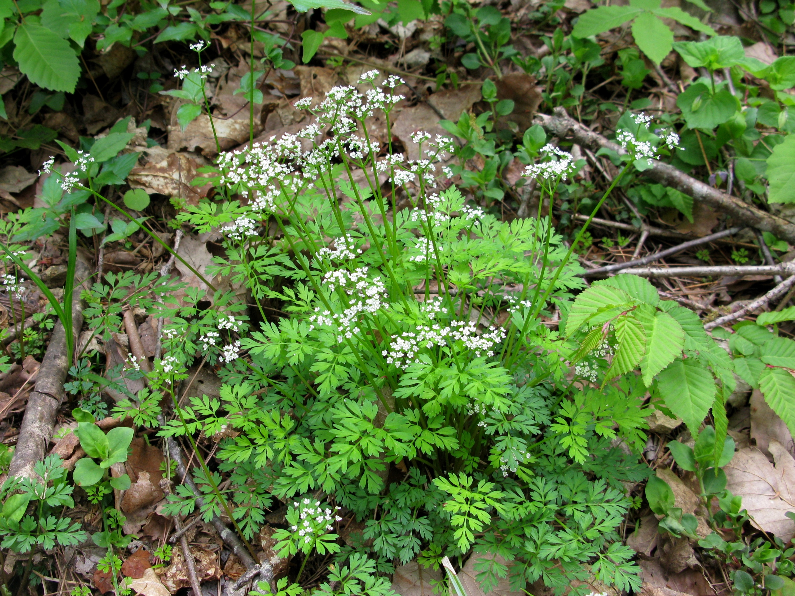 Chamaele decumbens, Aizu area, Fukushima pref., Japan